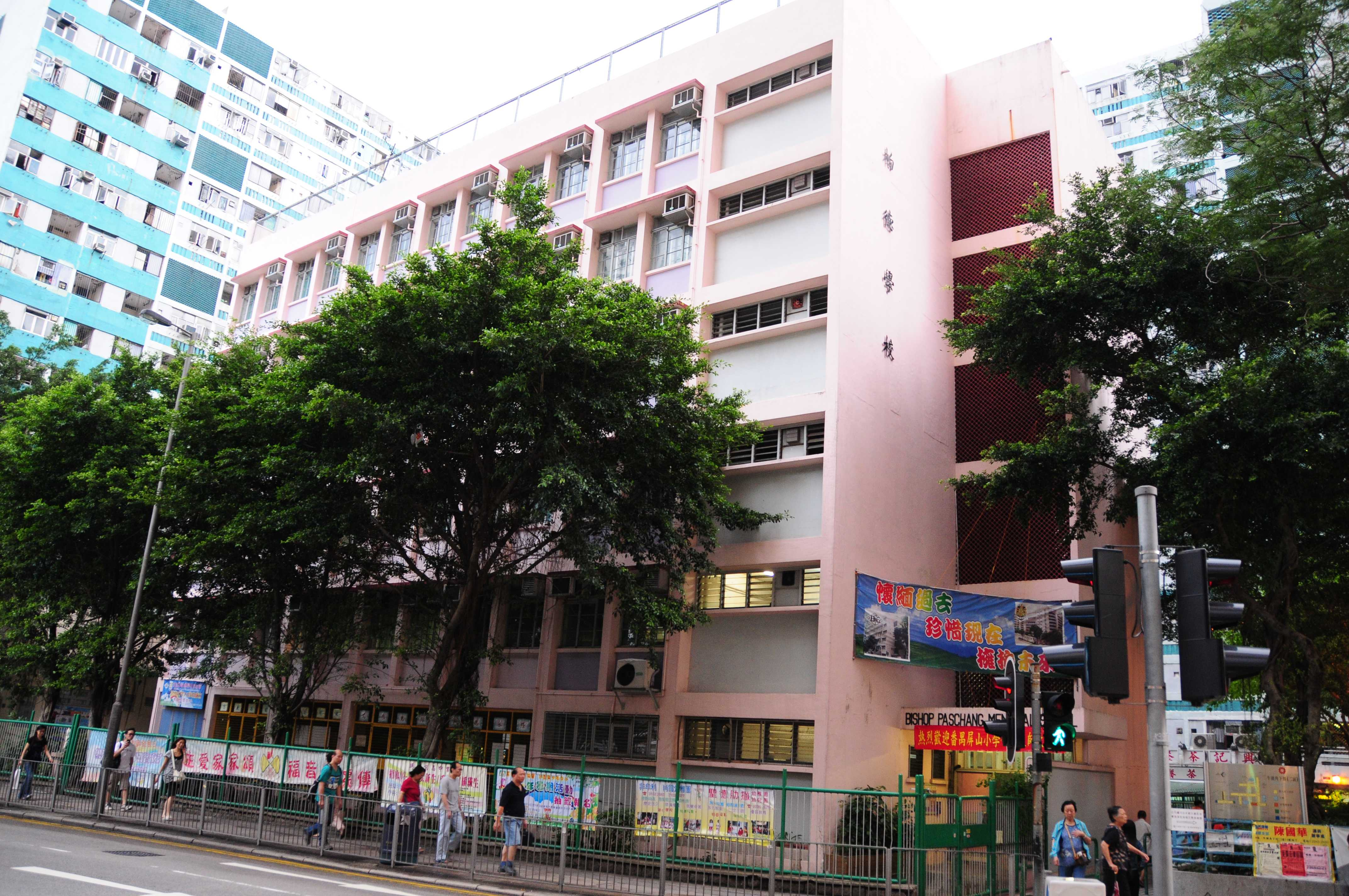 photo showing front elevation of Bishop Paschang Memorial School